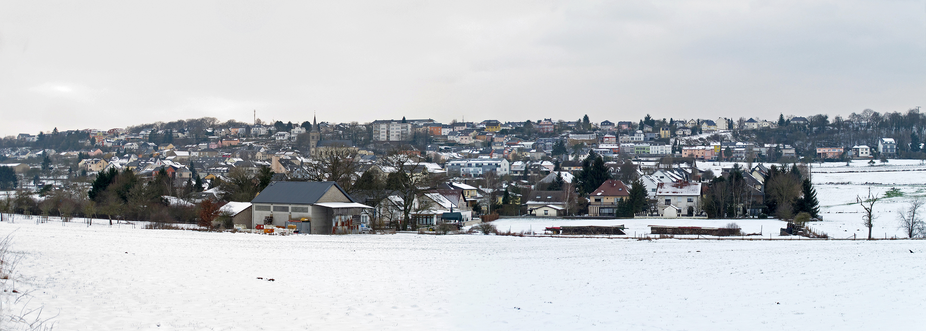 Panorama of Itzig, Luxembourg